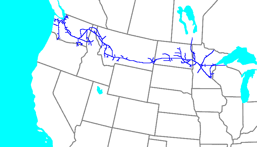 Northern Pacific Railway network